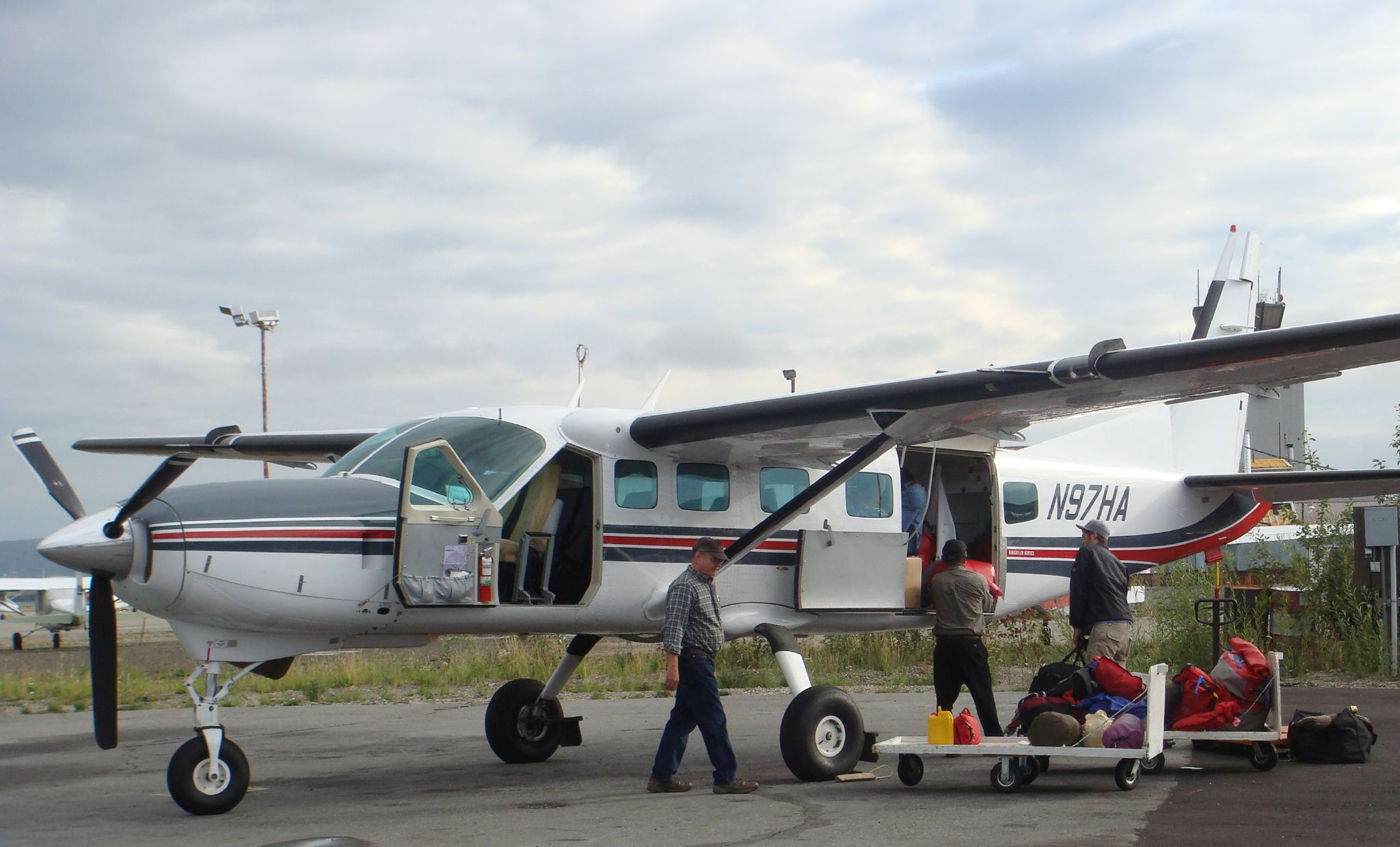 "Loading the river bags, Fairbanks to Arctic Village." This Cessna 208B Caravan is one of several operated by Wright Air Service, which makes scheduled flights to Arctic Village and other destinations from its base in Fairbanks.